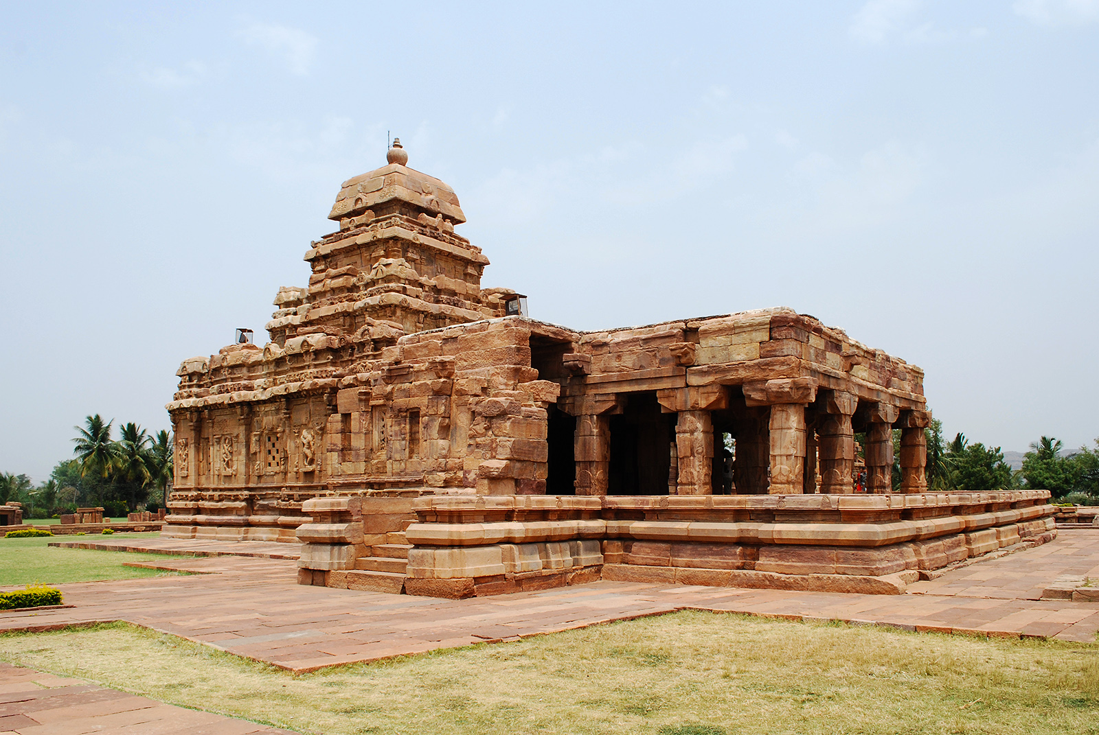 Sangameshwara Temple, Pattadakal